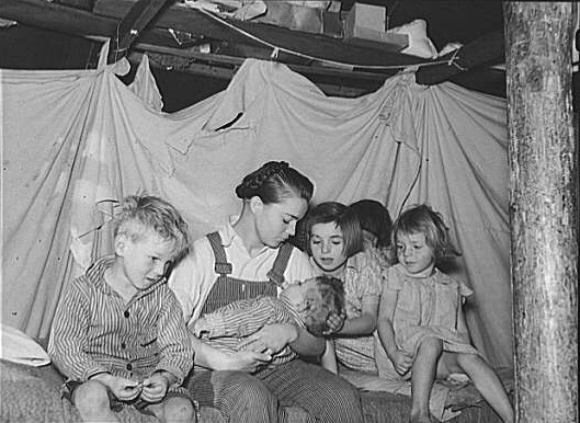 Children of John Harshenberger, Mennonite farmer. Sheridan County, Montana.